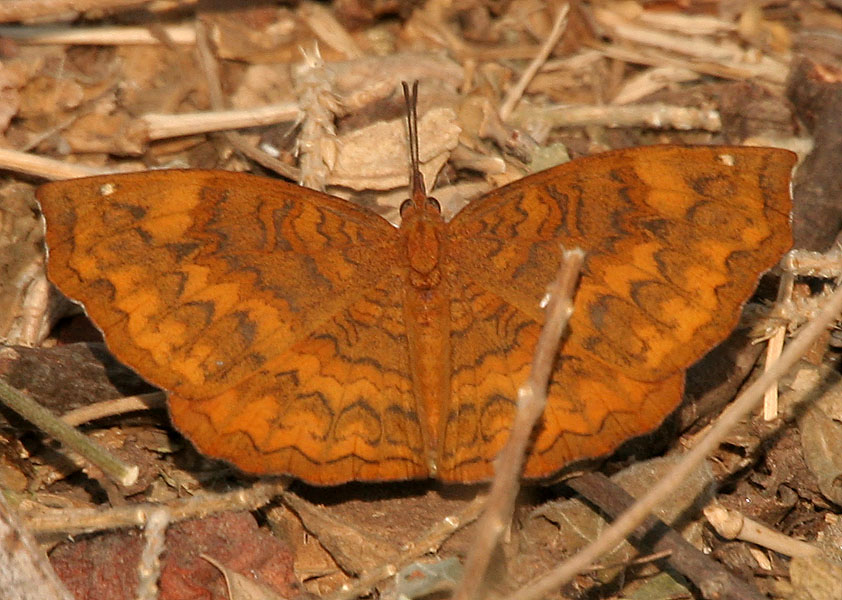 Common Castor Ariadne merione in Hyderabad, India.